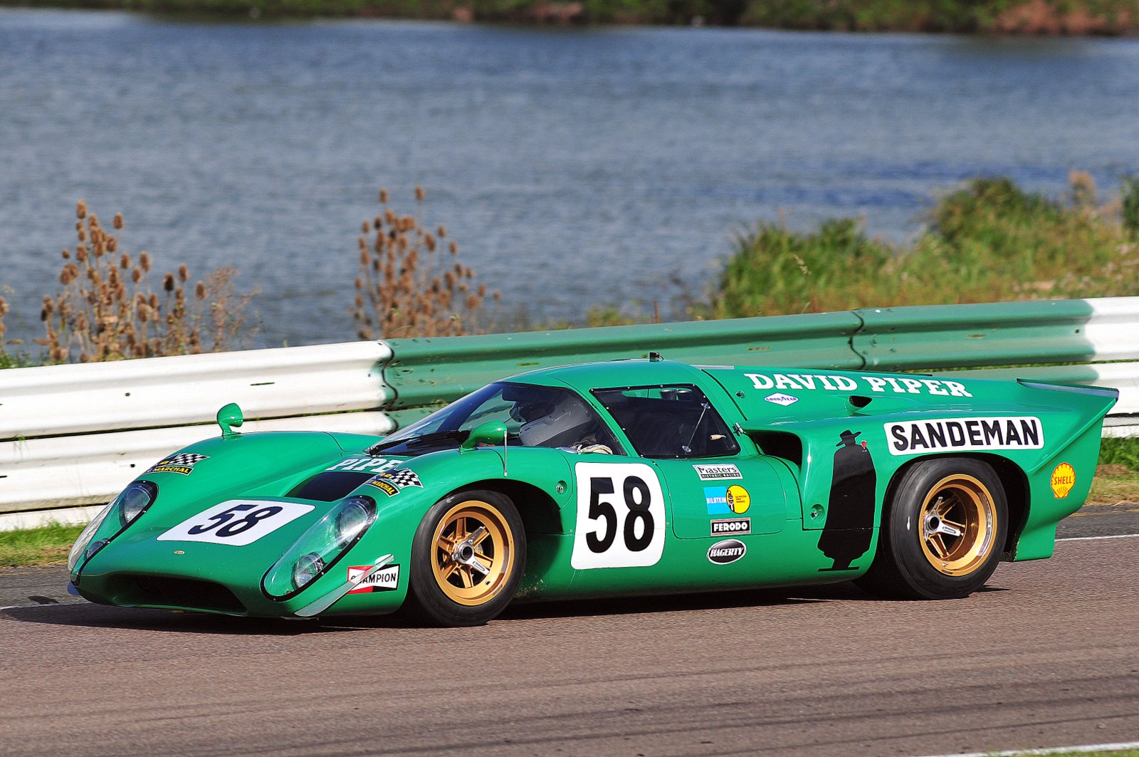 The ex-David Piper, Chevrolet-engined Lola T70 Mk3B, being tested at Mallory Park, September 2009.